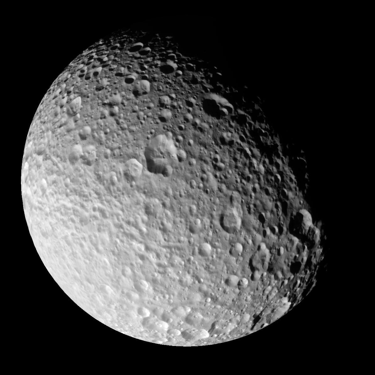 The most detailed images ever taken of Saturn's moon Mimas show it to be one of the most heavily cratered Saturnian moons, with little if any evidence for internal activity. Mimas has been so heavily cratered that new impacts can only overprint or even completely obliterate other older craters. Mimas is 397 kilometers or (247 miles) across. The moon displays an unexpected array of crater shapes. The highest crater walls tower 6 kilometers (4 miles) above the floors and show signs of material sliding down slope. Indeed, many of the large craters -- more than 15 kilometers (10 miles) in diameter -- appear to be filled in with rough-surfaced material, likely the result of landslides triggered by subsequent impacts elsewhere on Mimas' surface. Some of these deposits have craters superimposed on them, demonstrating that the landslides themselves may be quite old. Grooves, some of which are over a kilometer deep, cut across the surface for more than 100 kilometers (63 miles). These are some of the only indications that there might have once been internal activity under this ancient, battered surface. The Cassini-Huygens mission is a cooperative project of NASA, the European Space Agency and the Italian Space Agency. The Jet Propulsion Laboratory, a division of the California Institute of Technology in Pasadena, manages the mission for NASA's Science Mission Directorate, Washington, D.C. The Cassini orbiter and its two onboard cameras were designed, developed and assembled at JPL. The imaging operations center is based at the Space Science Institute in Boulder, Colo. For more information about the Cassini-Huygens mission visit . The Cassini imaging team homepage is at The NASA image has been cropped.